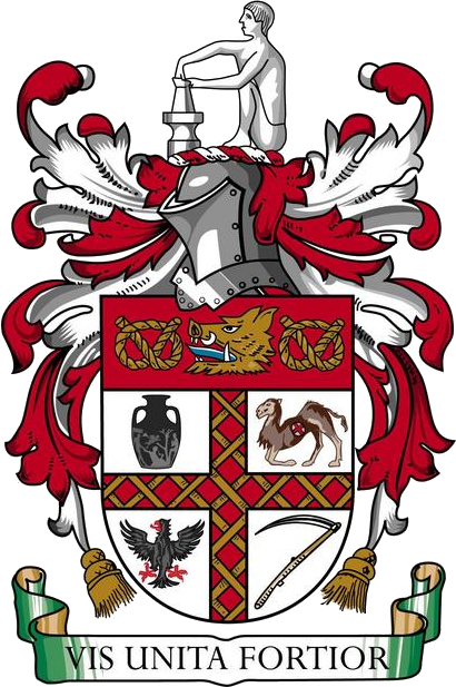 Coat of arms of Stoke-on-Trent, United Kingdom. The arms were officially granted on March 20, 1912.